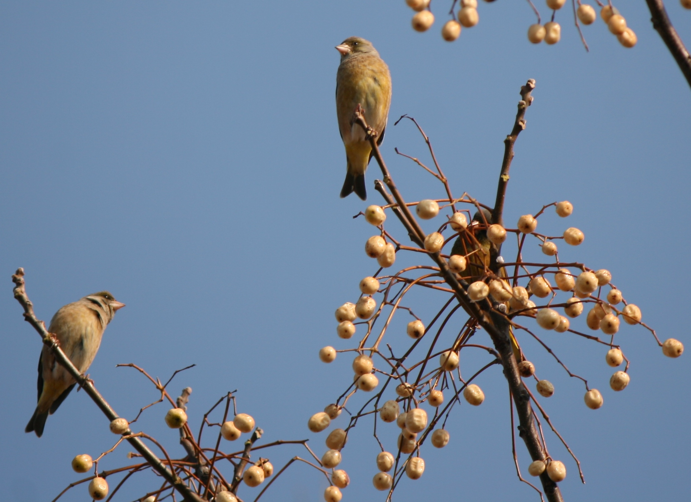 Carduelis sinica minor (Oriental Greenfinch) on Melia azedarach, in Japan.